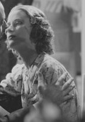 Esther Vani- actriz